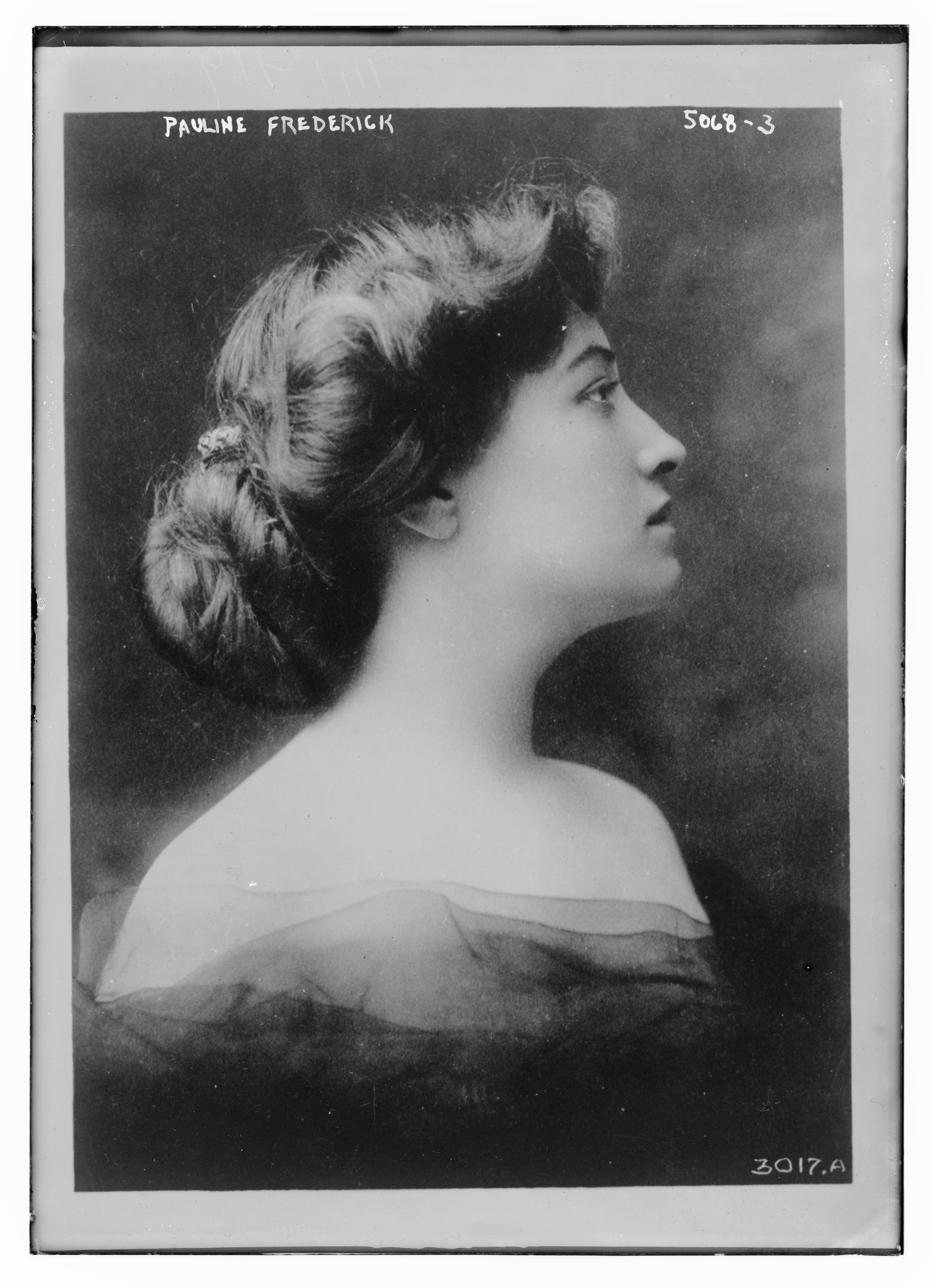 Actress Pauline Frederick